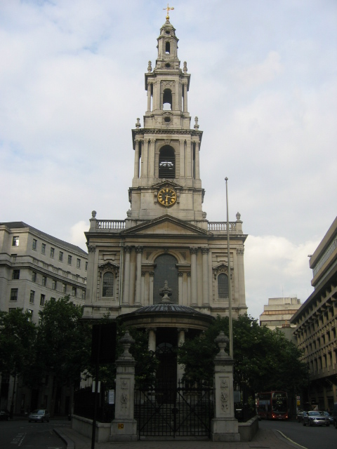 London : St Mary-le-Strand